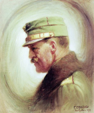 The army chief Crown prince Constantine 1913